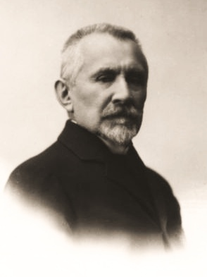 Julian Talko-Hryncewicz (1850-1936)- polish physician, anthropologist and Siberia explorer